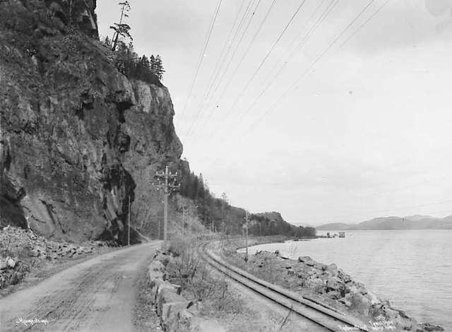 Vestfold Line and the main road Oslo-Stavanger, north of Holmestrand, Norway